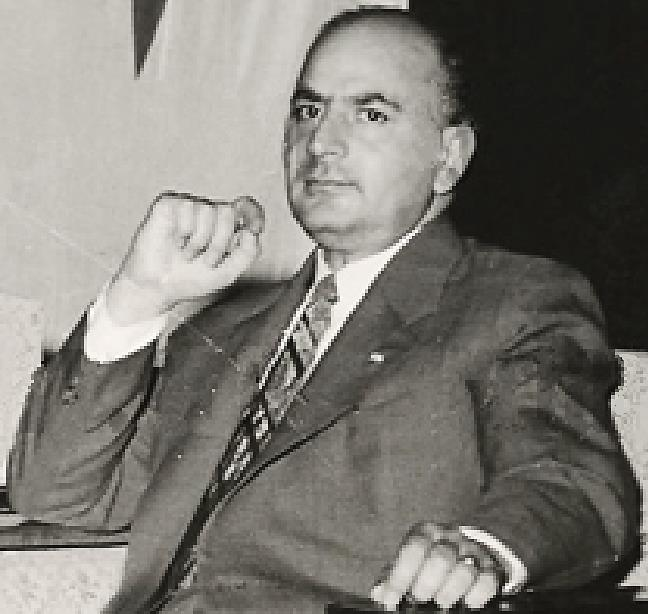 Syrian People's Party leader Abd al-Wahab Wahhab in Damascus with President Shukri al-Quwatli and Prime Minister Sabri al-Asali (not shown in this cropped picture)